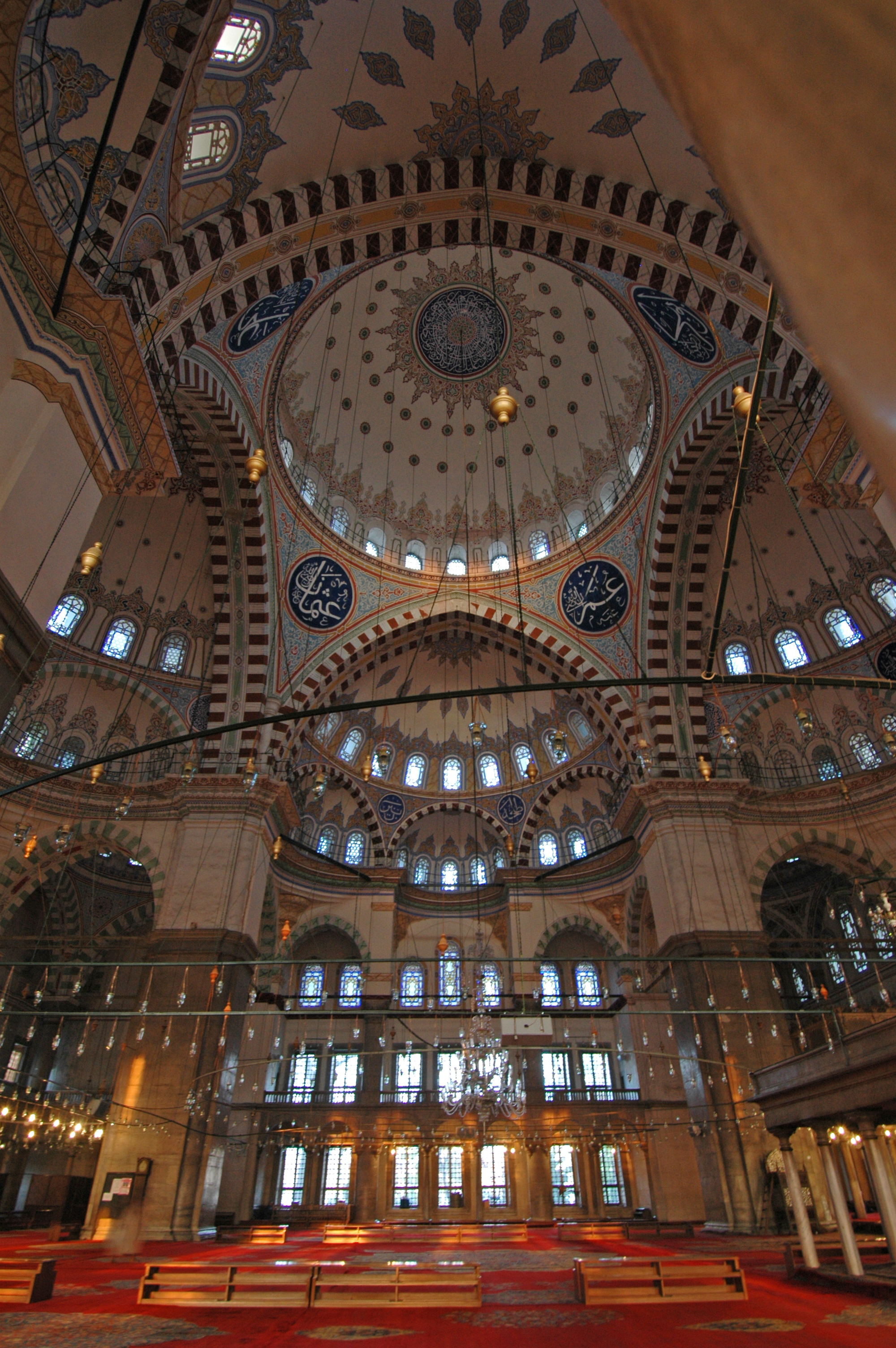 Taken with a wide angle lens